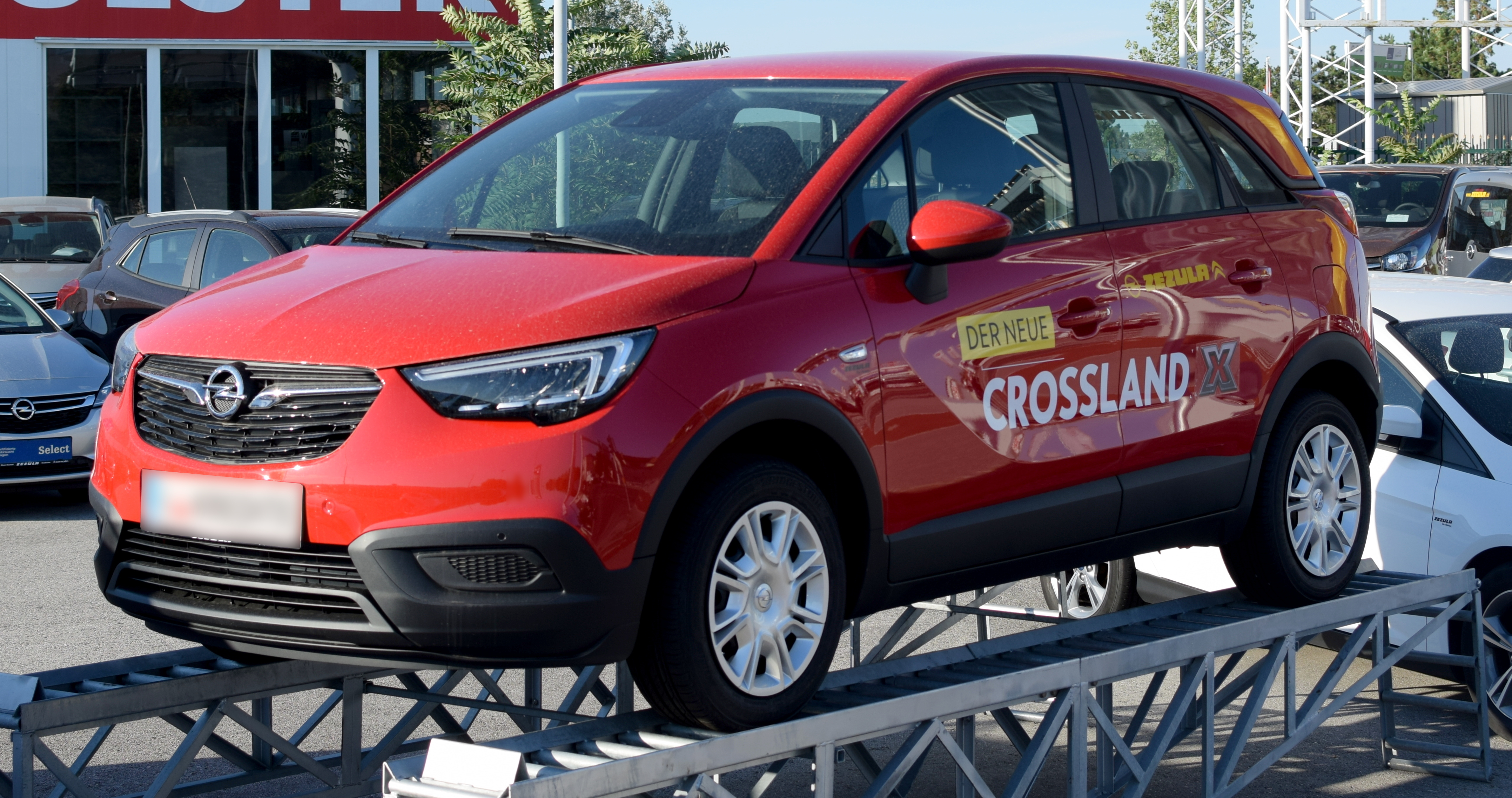 2017 Opel Crossland X seen from the front left corner in red